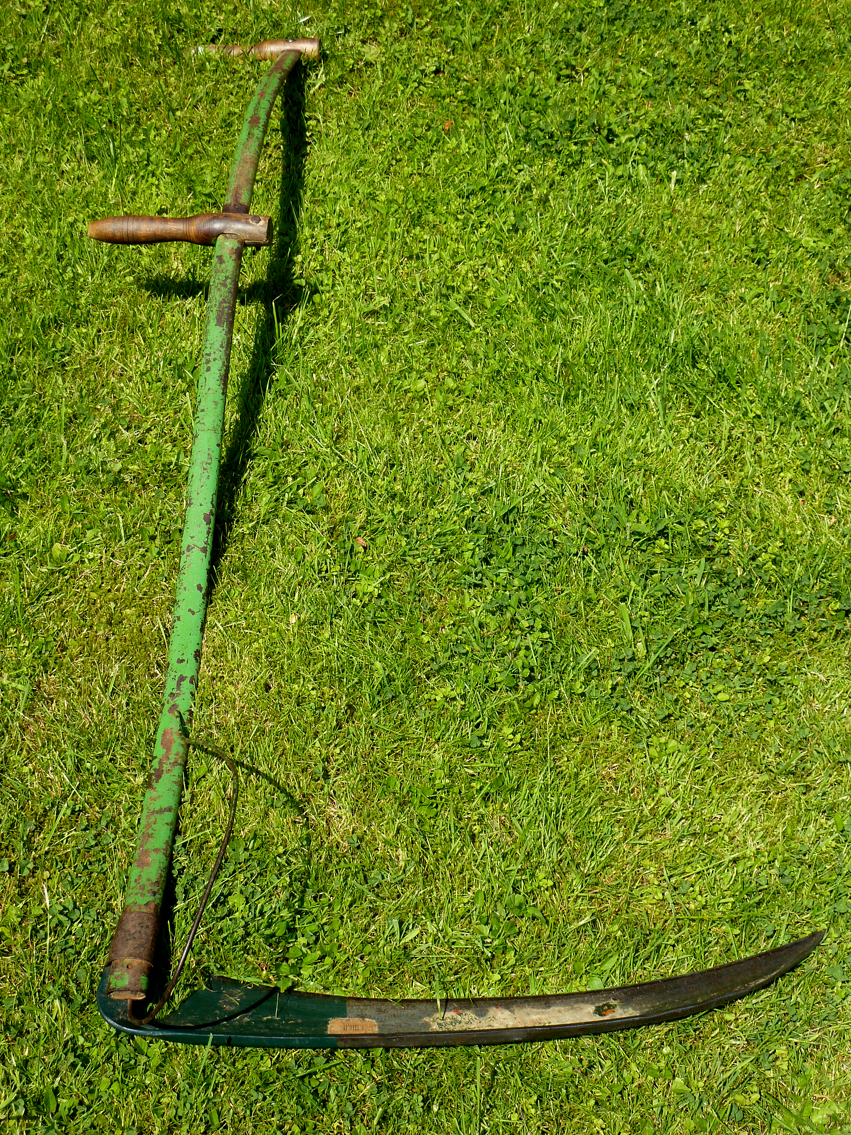 A scythe